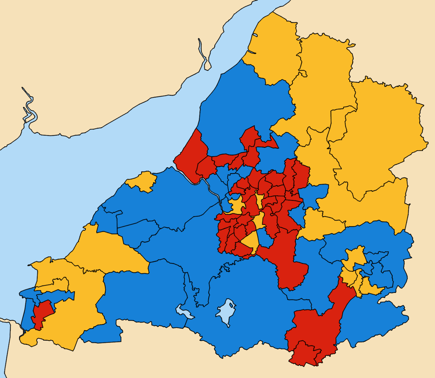 Results of the 1993 local elections in Avon Colours: Conservative Labour Liberal Democrat